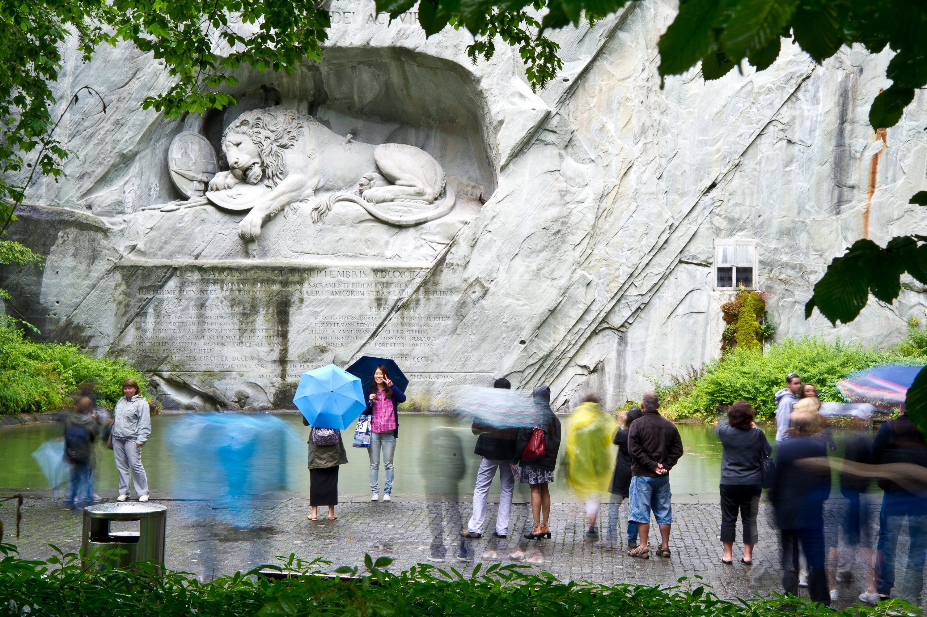 The Lion Monument of Lucerne is always busy with tourists - no matter the weather or time of year.